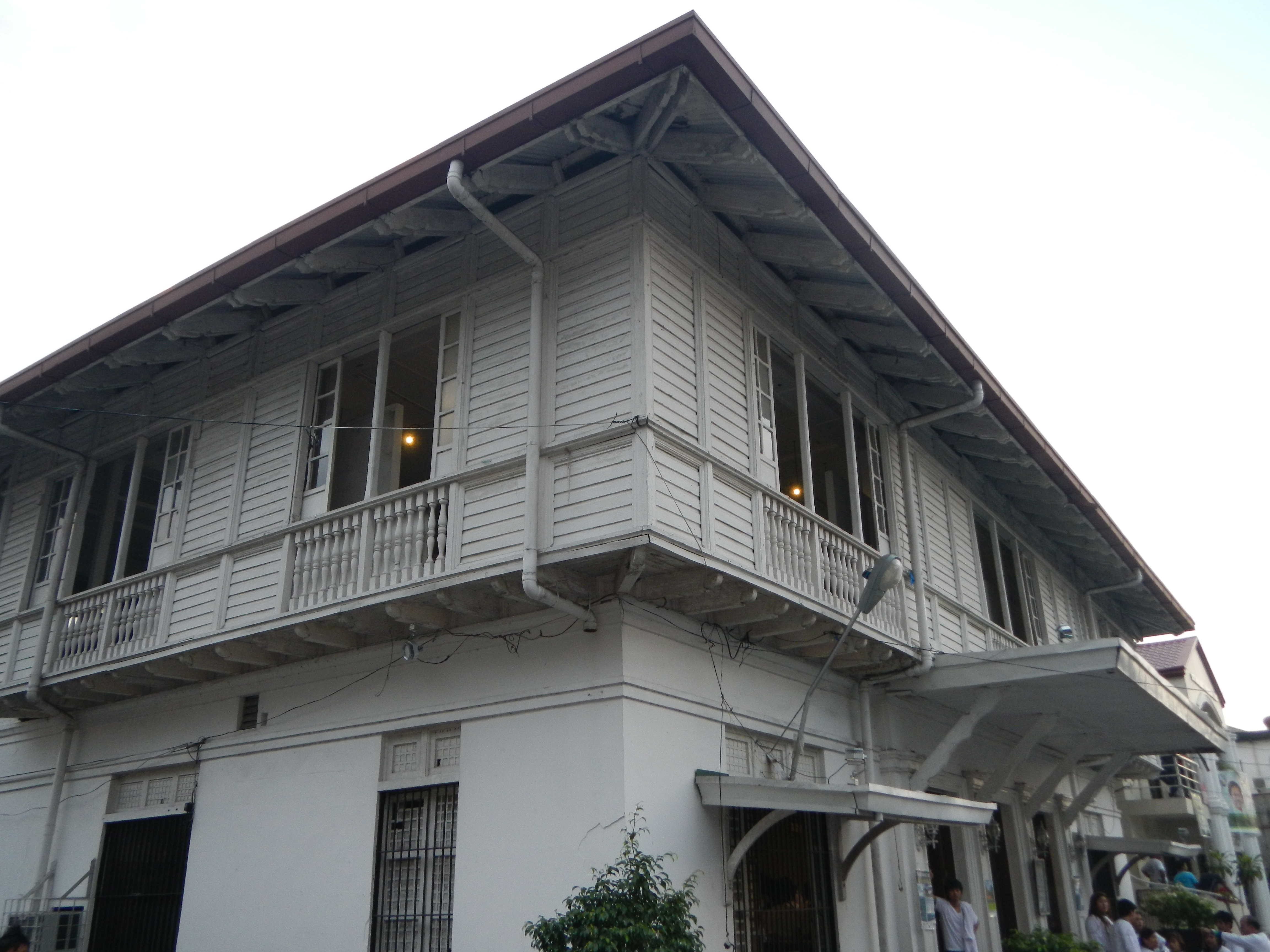 Museo ning Angeles (Museum of Angeles)[1] [2]Angeles, Philippines